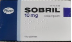 Bildet ovenfor viser en pakke med 10 mg Sobril